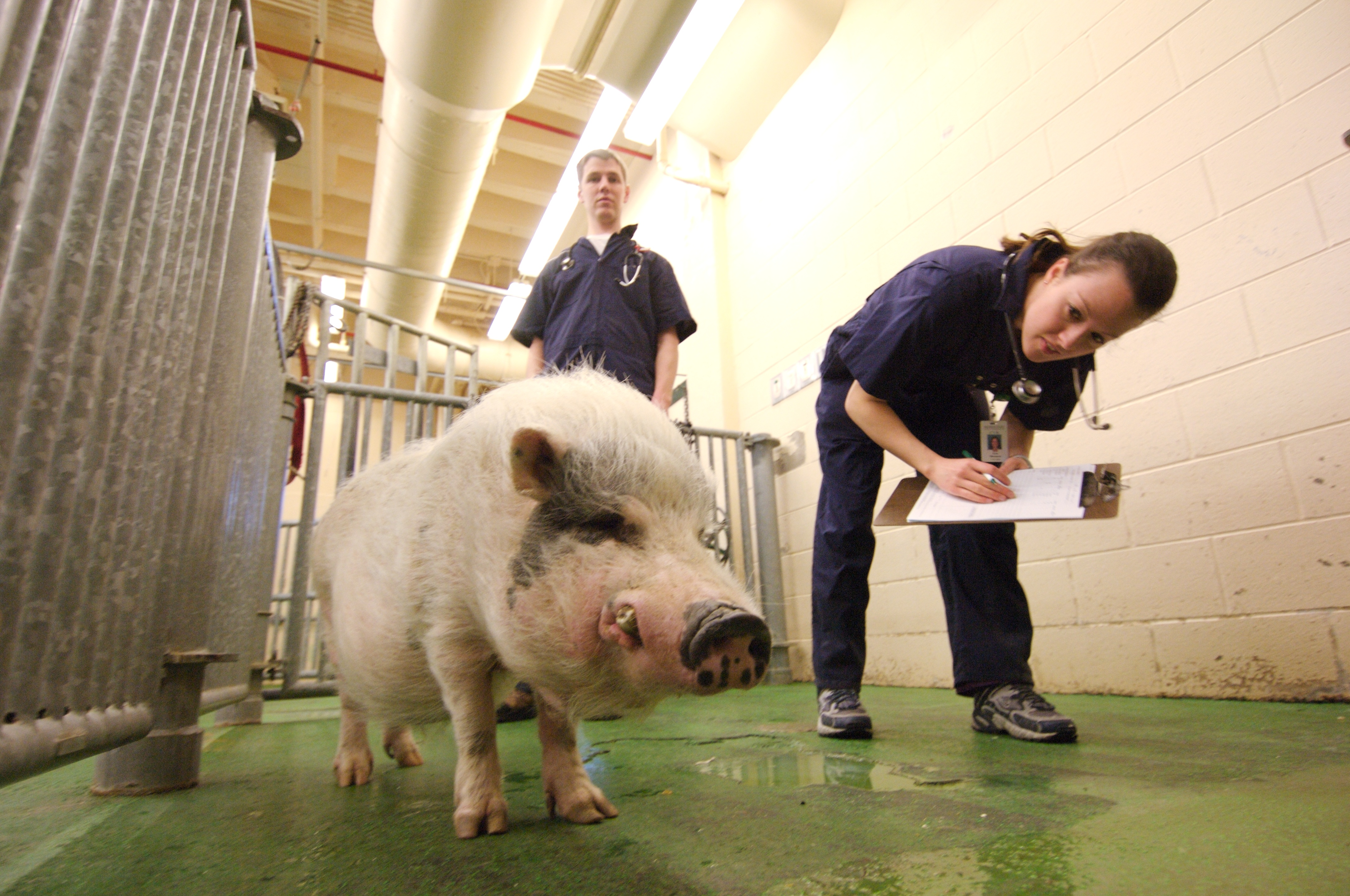 Veterinary students in the United States engage in clinical training by assessing the health of a pig in August 2006.